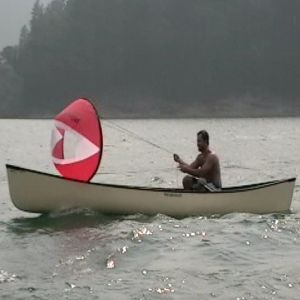 Sailing a Canoe